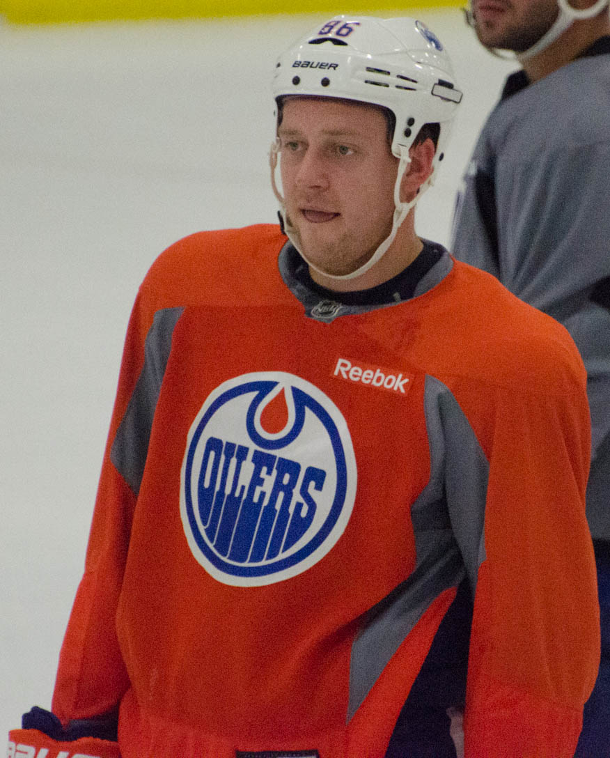 Nikita Nikitin at an Edmonton Oilers practice, Sept. 27, 2014